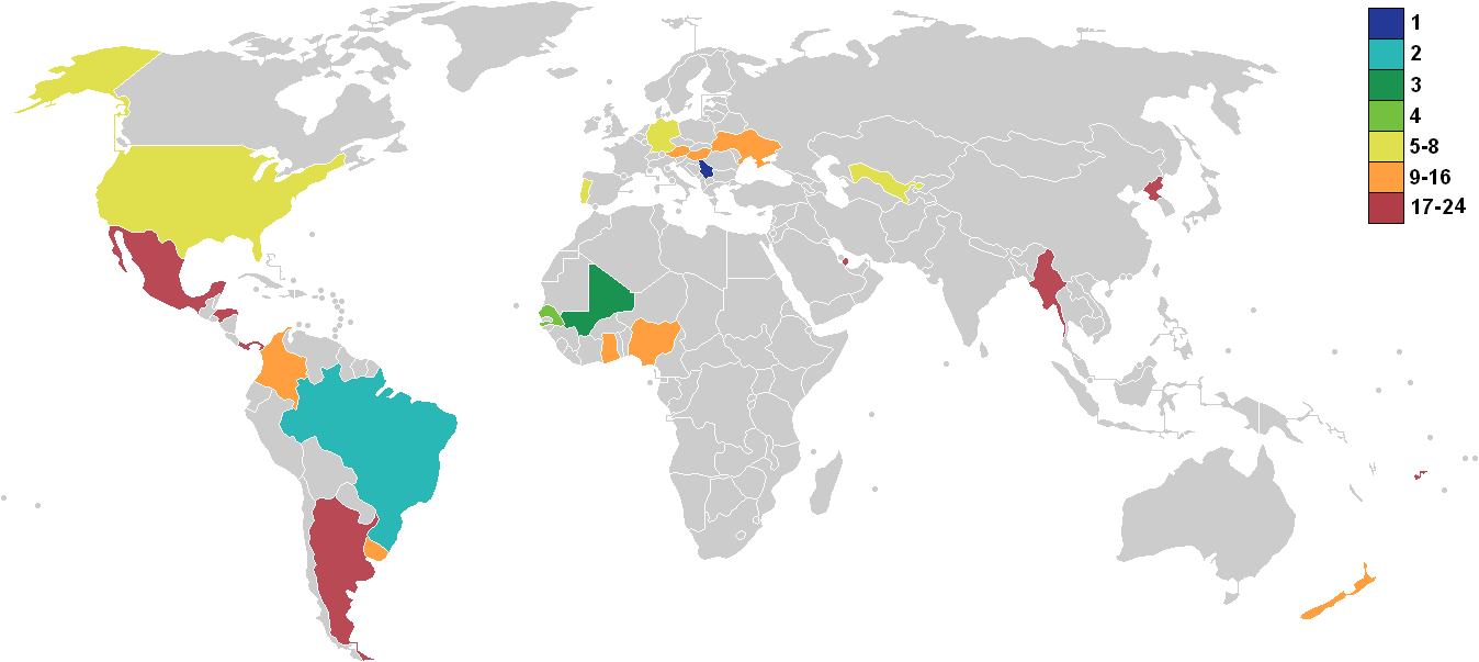 Map showing the stages reached by each team in the 2015 FIFA U-20 World Cup